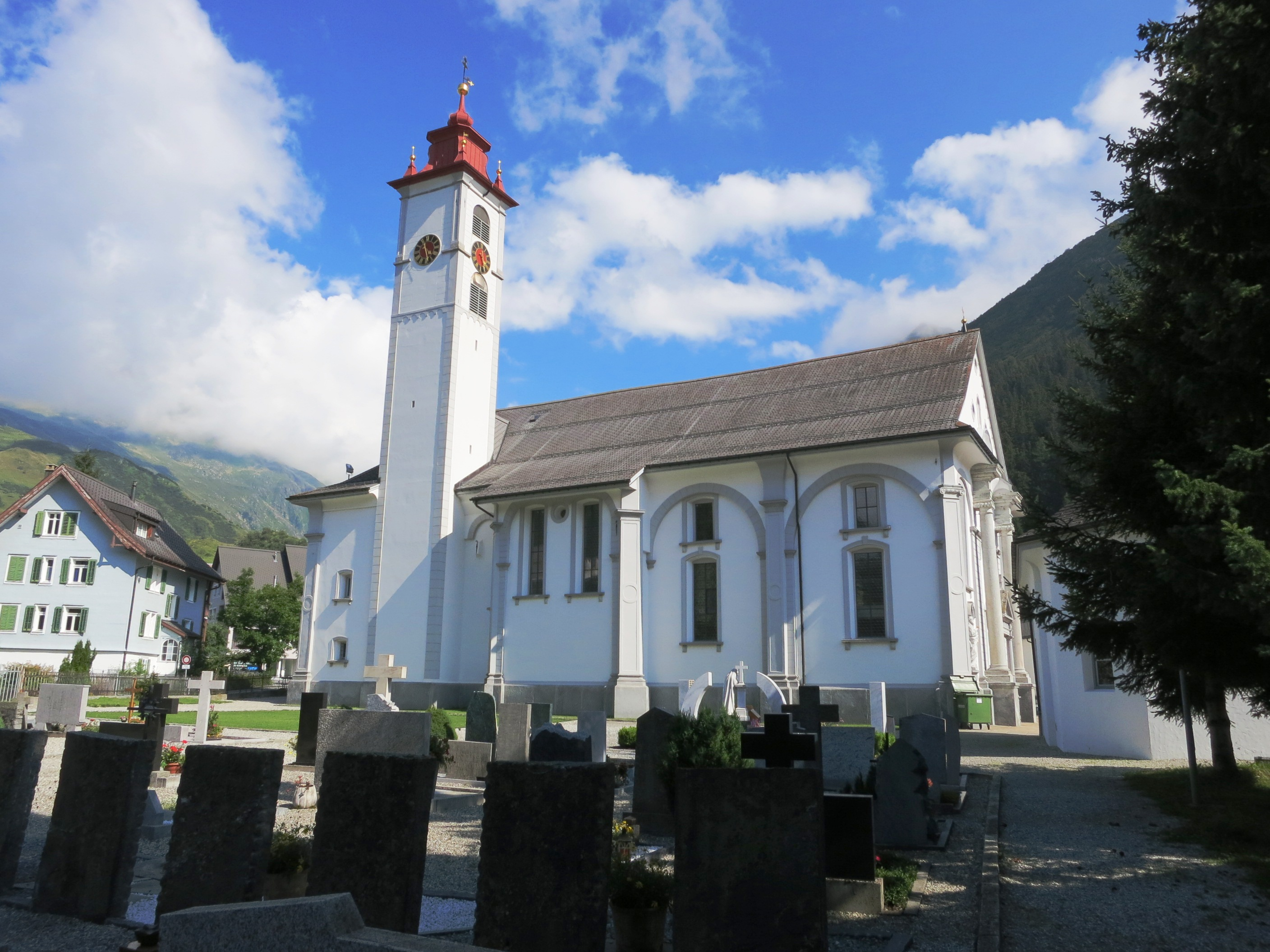 Pfarrkirche Andermatt UR, Schweiz